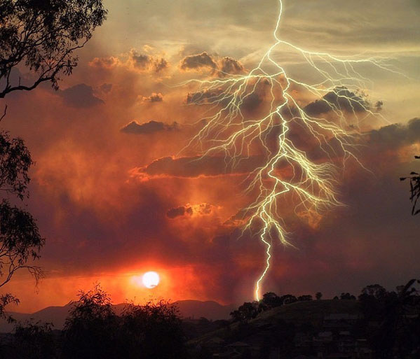 sunset/lightning